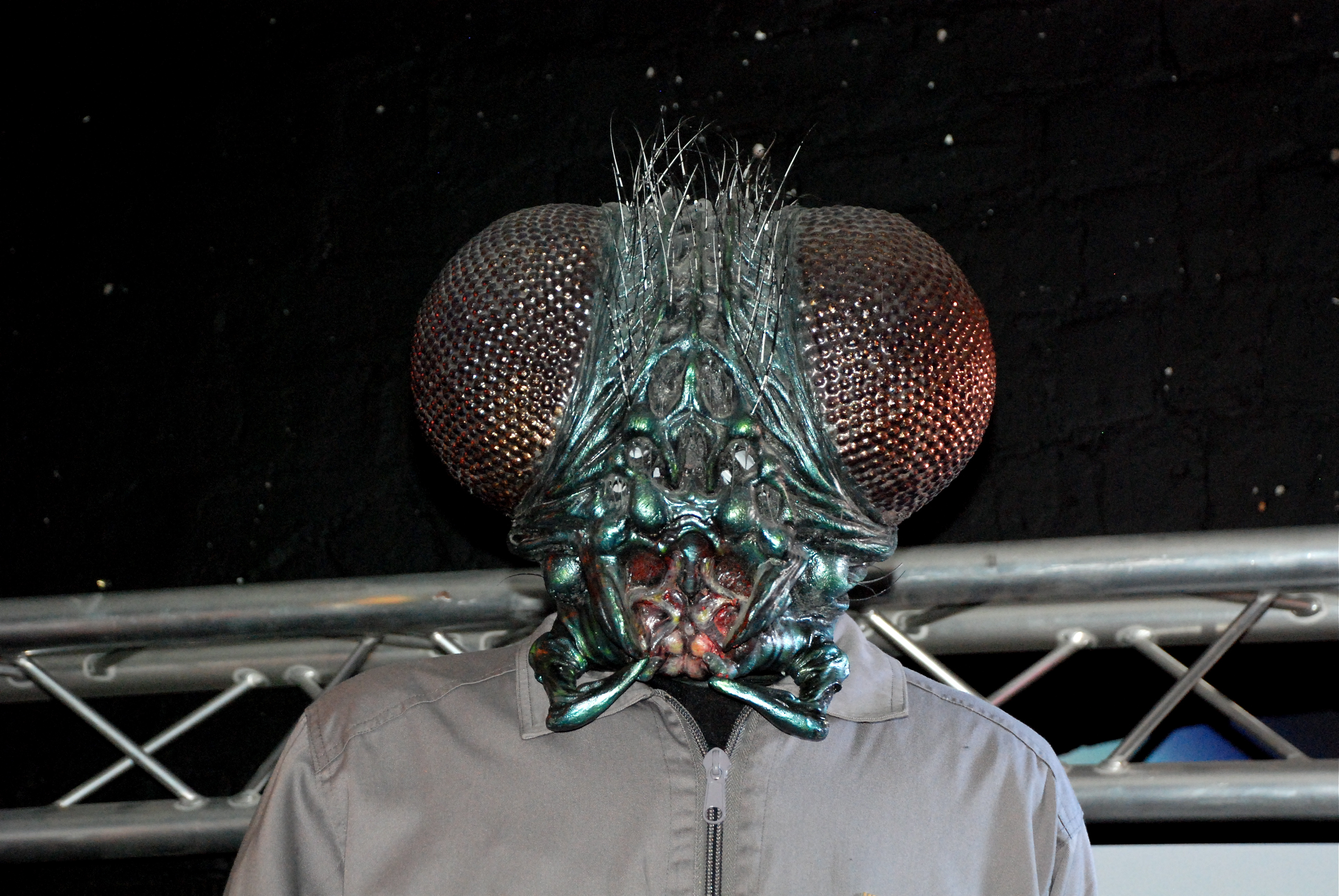 The Dr. Who exhibition at the Kelvingrove Art Gallery is well worth a visit. Of particular interest to me were the numerous examples of pre vis material on display. Lots of examples of storyboards and research materials for sets costumes and of course monsters. The show is great for kids but infants might find it a bit too scary. Particular highlights were the Cybermen and Dalek exhibits which were really interactive and very well done. Good to see these up close. Lots of ideas for halloween costumes from the monsters! Recommended, finishes on 4 Jan 2010. Doctor Who Experience